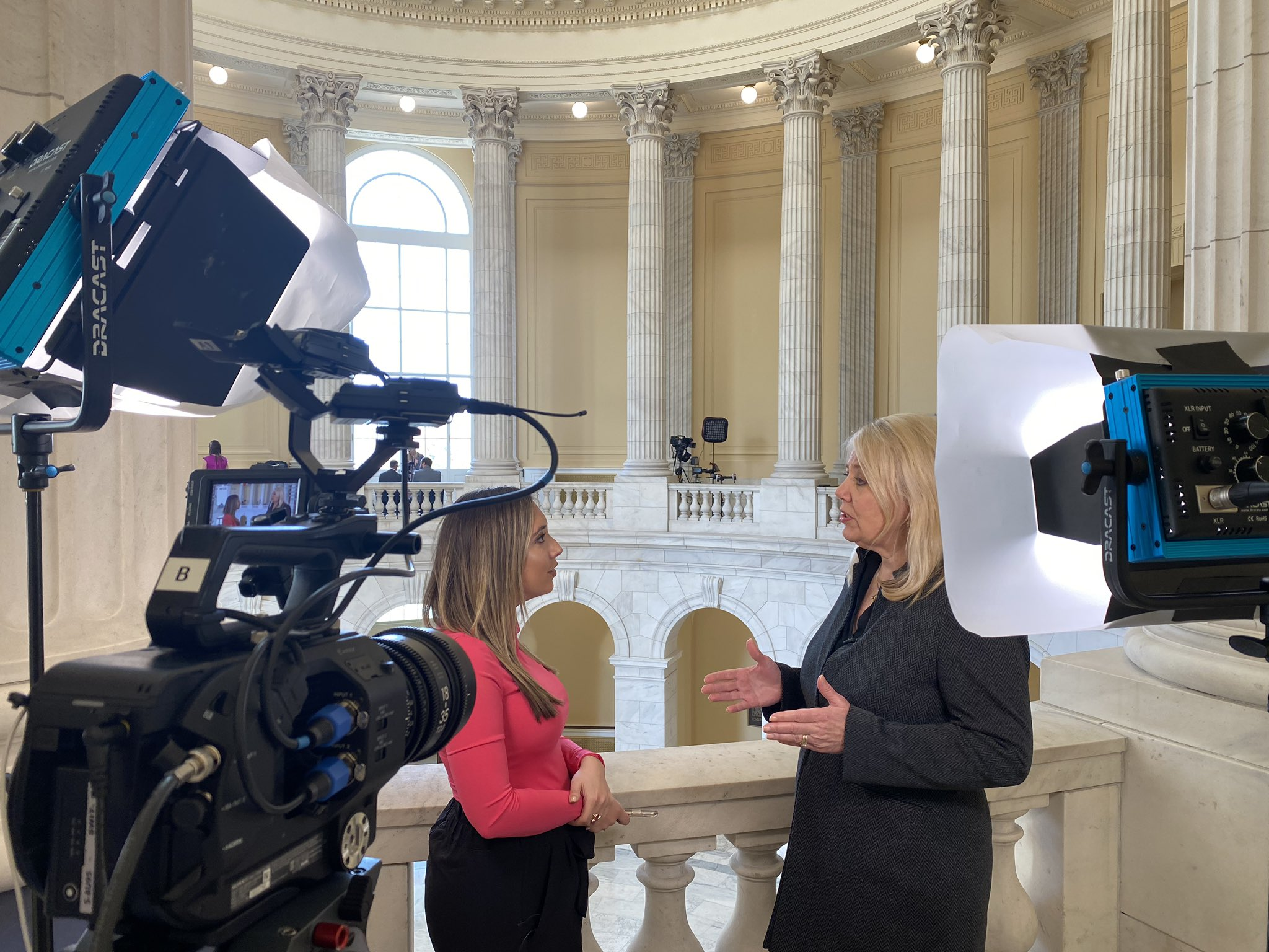 NOW: Talking the latest on #coronavirus negotiations with @AlexMillerNews on @Newsy.